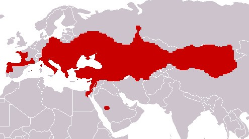 Crocidura suaveolens distribution